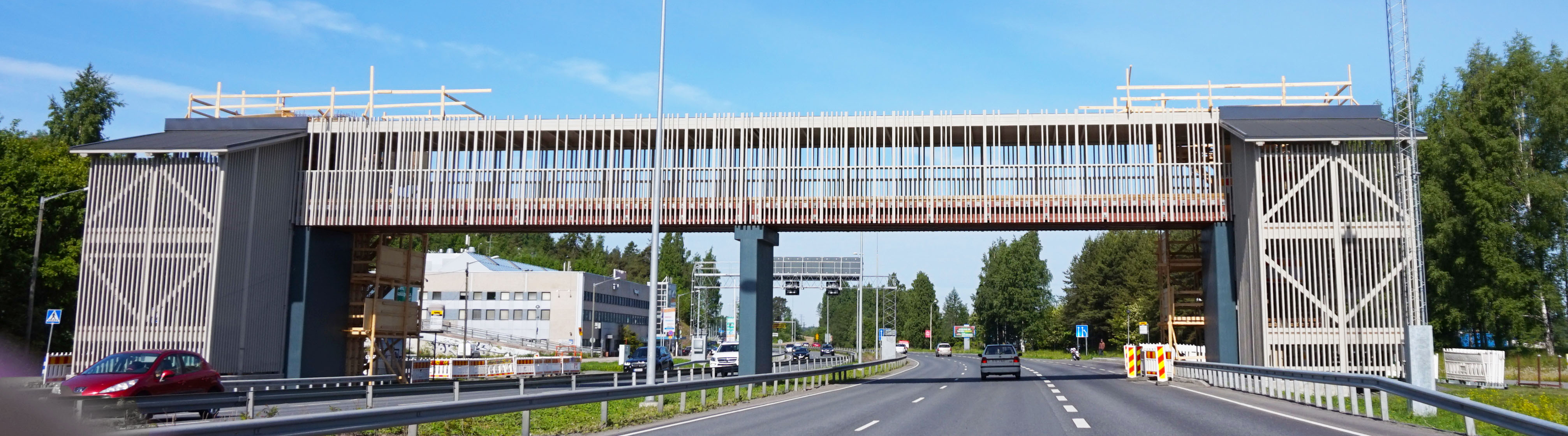 A pedestrian bridge over the road Paasikiventie in Tampere, Finland.This photograph was taken with a Sony ILCE-5000